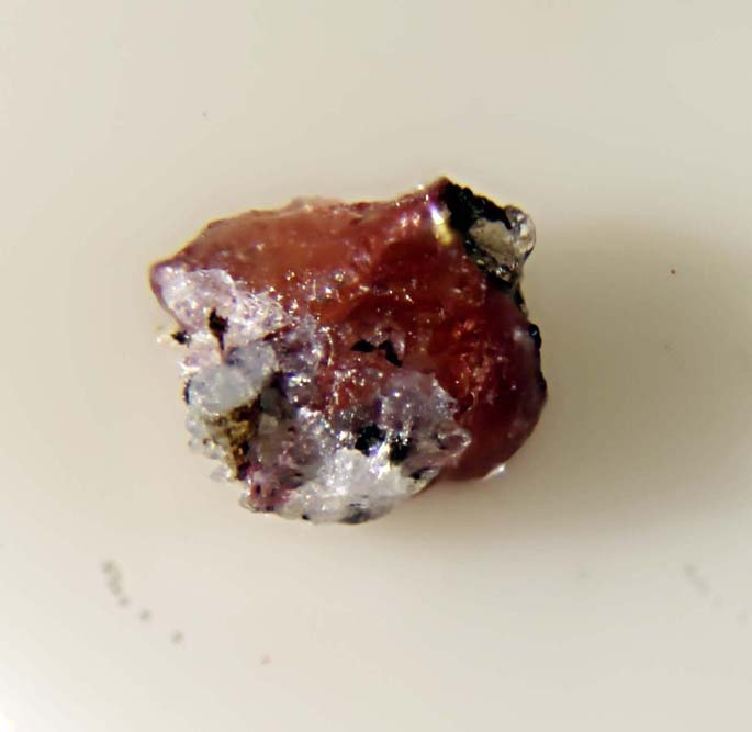 Colorless/white crystals of the extremely rare zirconium mineral yusupovite (IMA 2014-022) from the type and only known locality worldwide (Dara-i-Pioz Glacier, Tien Shan Mountains, Region of Republican Subordination, Tajikistan) in a small matrix of purple kentbrooksite. Ex.Dr. Igor.V. P. Pekov authour specimen.